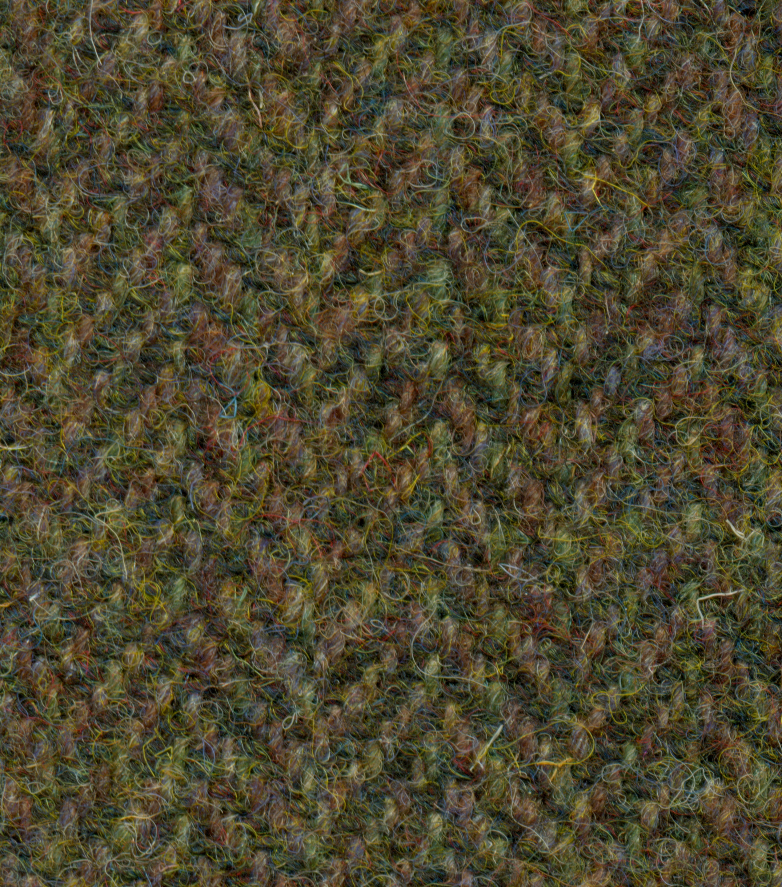 2D-scan of a cloth sample of Harris Tweed (herringbone). Handwoven woolen cloth from the Outer Hebrides.